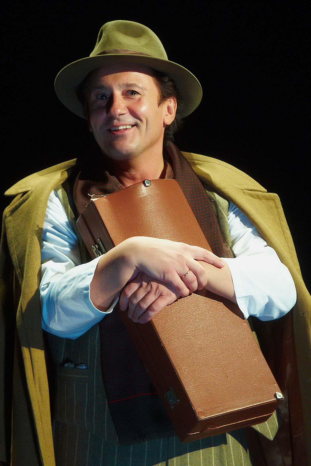 Oleg Meshikov. 1900. Perfomance. 9 September 2010